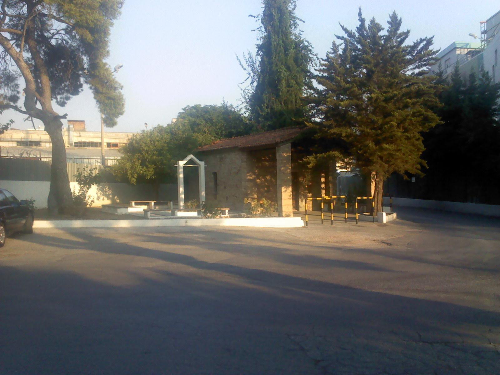 Zoodoxos Pigi Tavrou